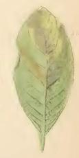 Stainton’s Natural History of the Tineina (1855–1873): Phyllonorycter salictella mined leaf of Salix caprea